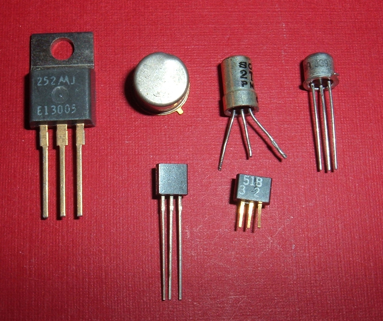 Several thru-hole transistors. I took this picture of artifacts from my personal collection. --agr 20:35, 11 November 2005 (UTC)